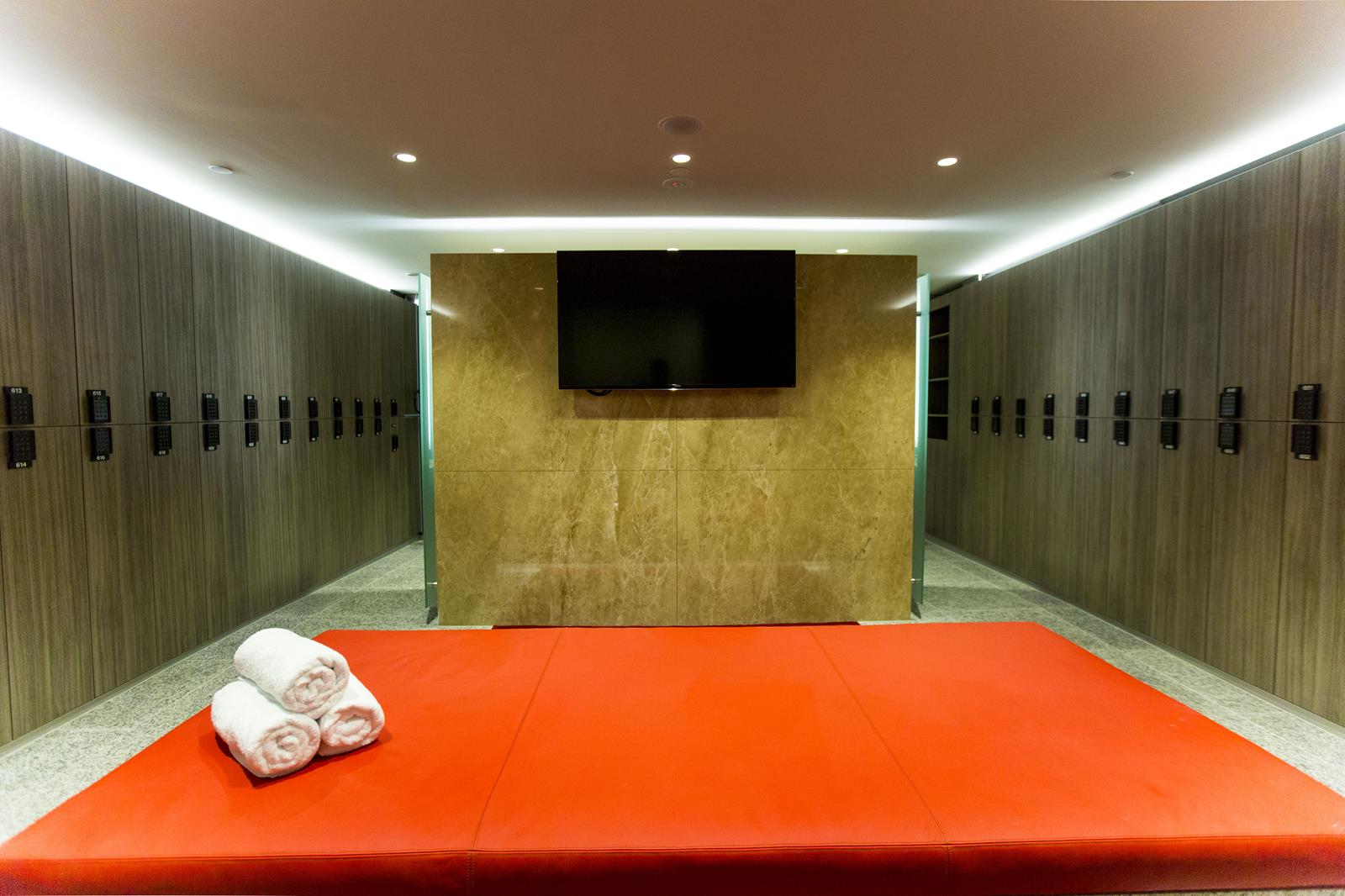 Grosvenor Place end of trip facilitites